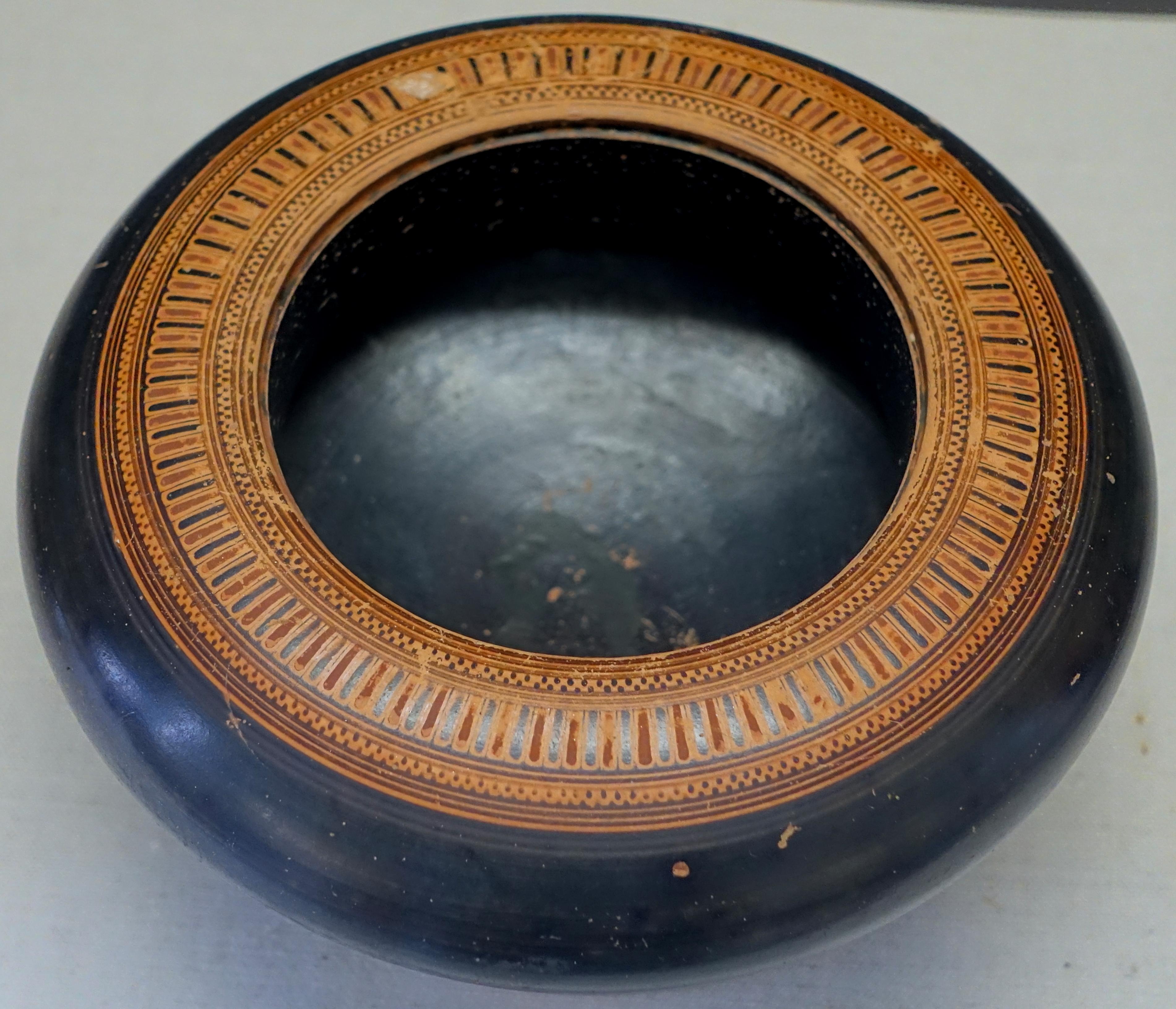 Exhibit in the Martin von Wagner Museum - Würzburg, Germany.